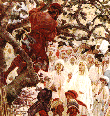 Zacchaeus being called down from the tree. From book: The Life of Jesus of Nazareth. Eighty Pictures.